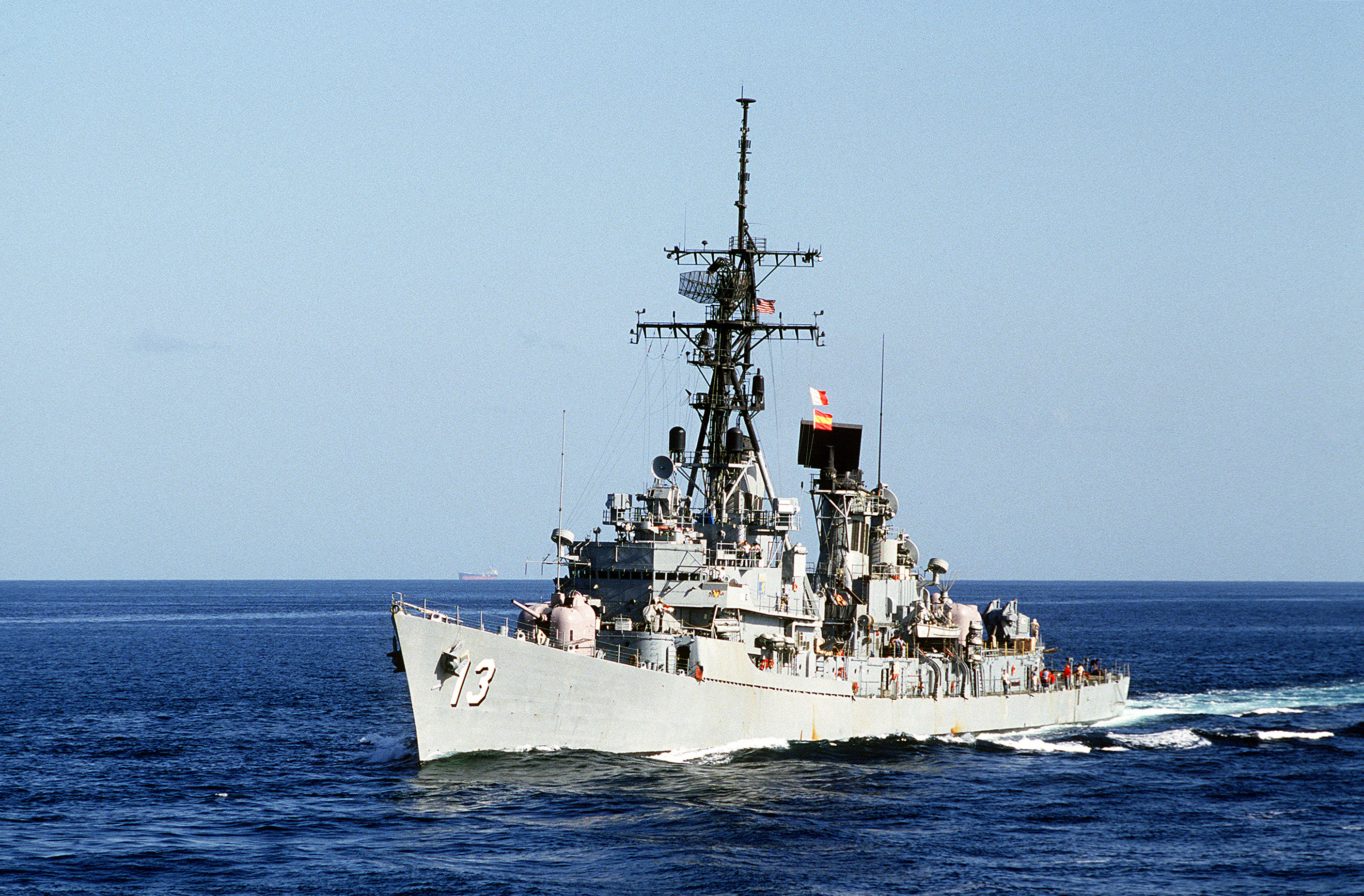 The U.S. Navy guided missile destroyer USS Hoel (DDG-13) underway at sea on 1 November 1987.